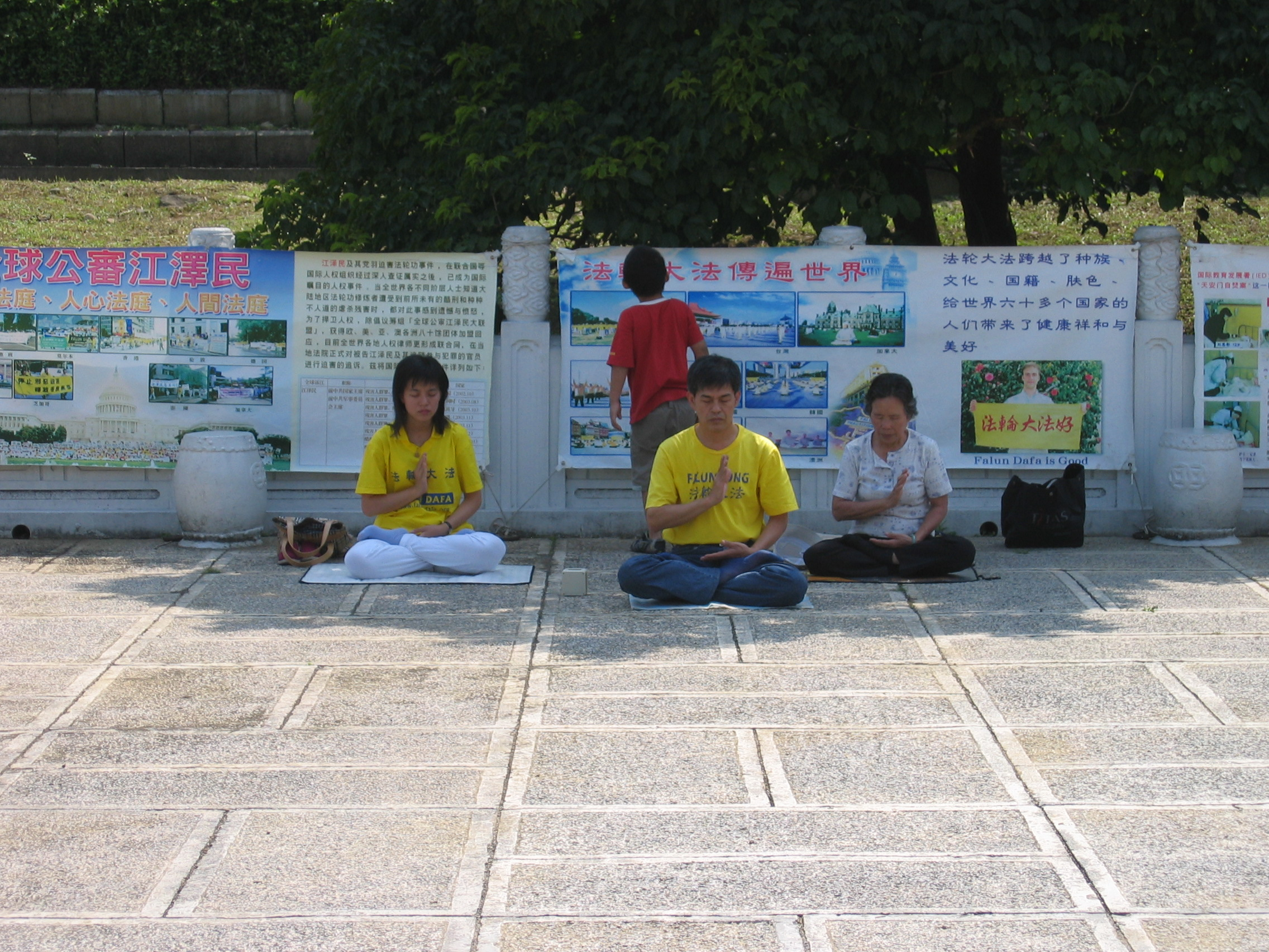 Photo taken on 2005.06.03 by User:Jiang at the National Palace Museum in Taipei City, Republic of China.